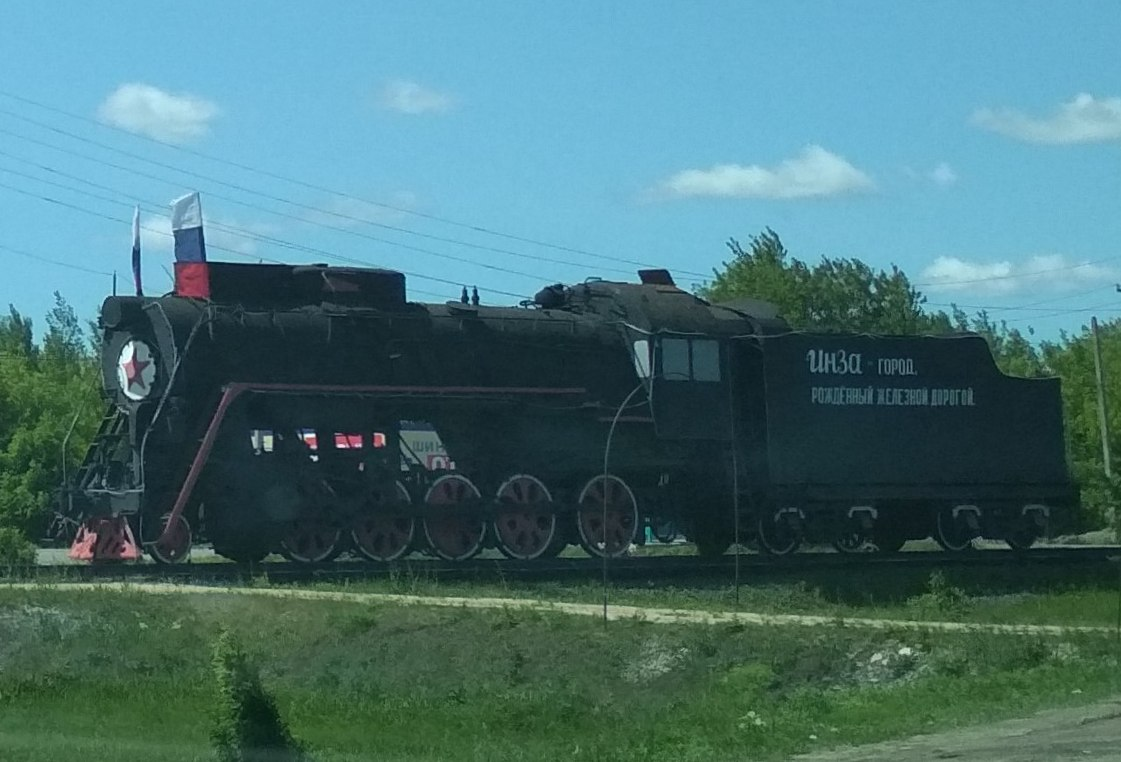 Locomotive L-3401 in the city of Inza, Ulyanovsk Region. Established in 2010 at the intersection of Vokzalnaya and Shosseynaya streets.